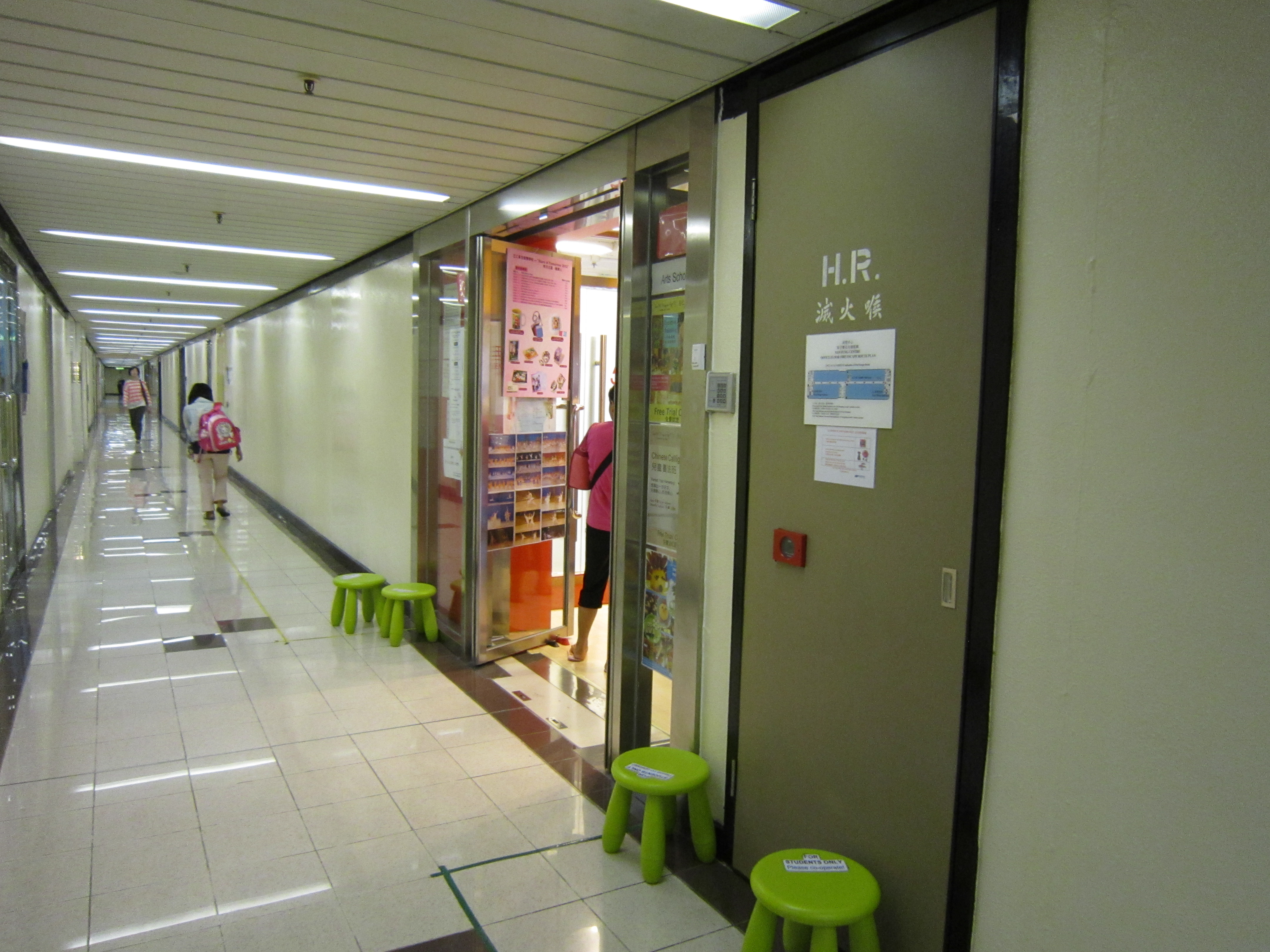 Jean M. Wong School of Ballet Tsuen Wan branch